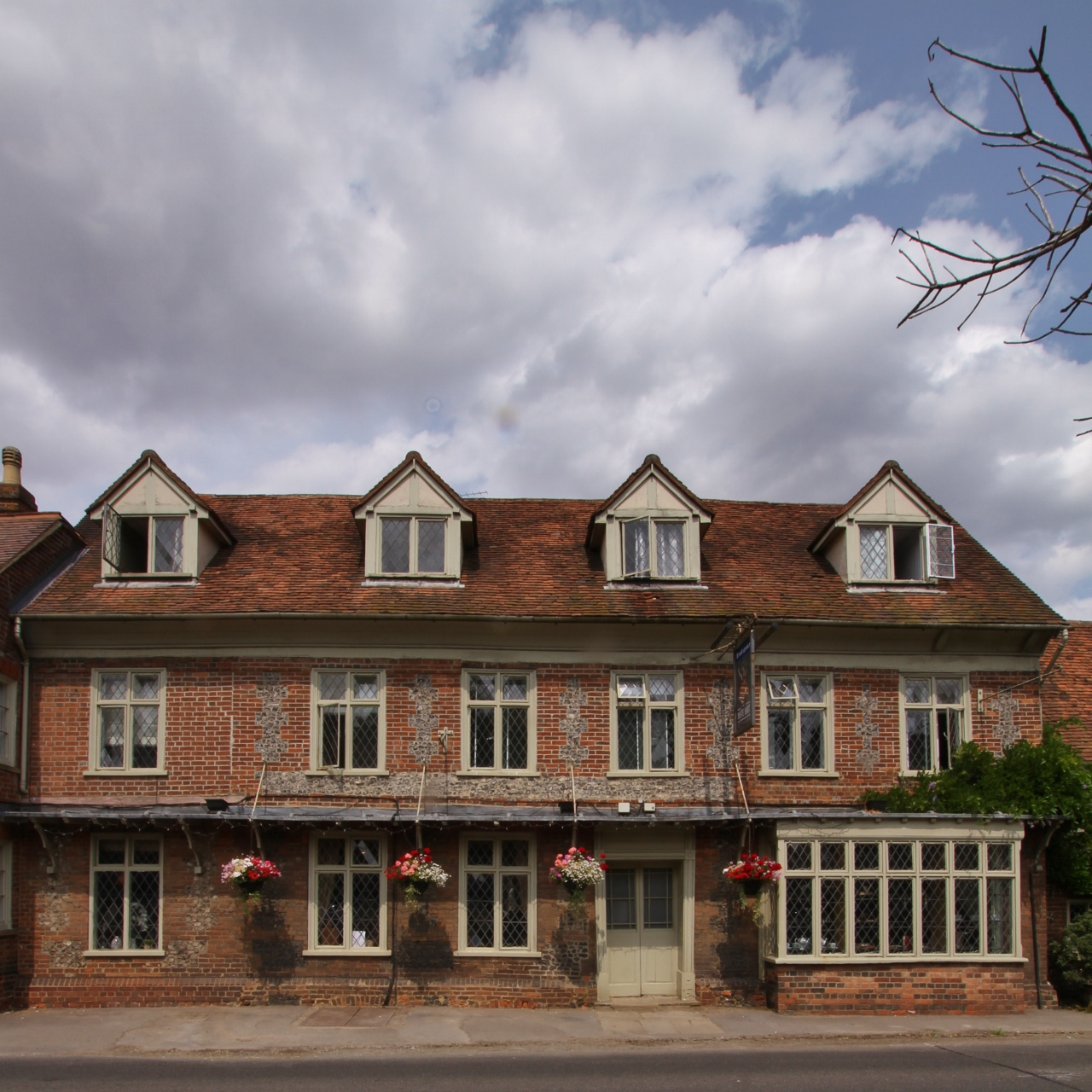 The White Hart, High Street, Nettlebed, Oxfordshire, seen from the south